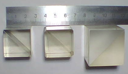 Beamsplitters.